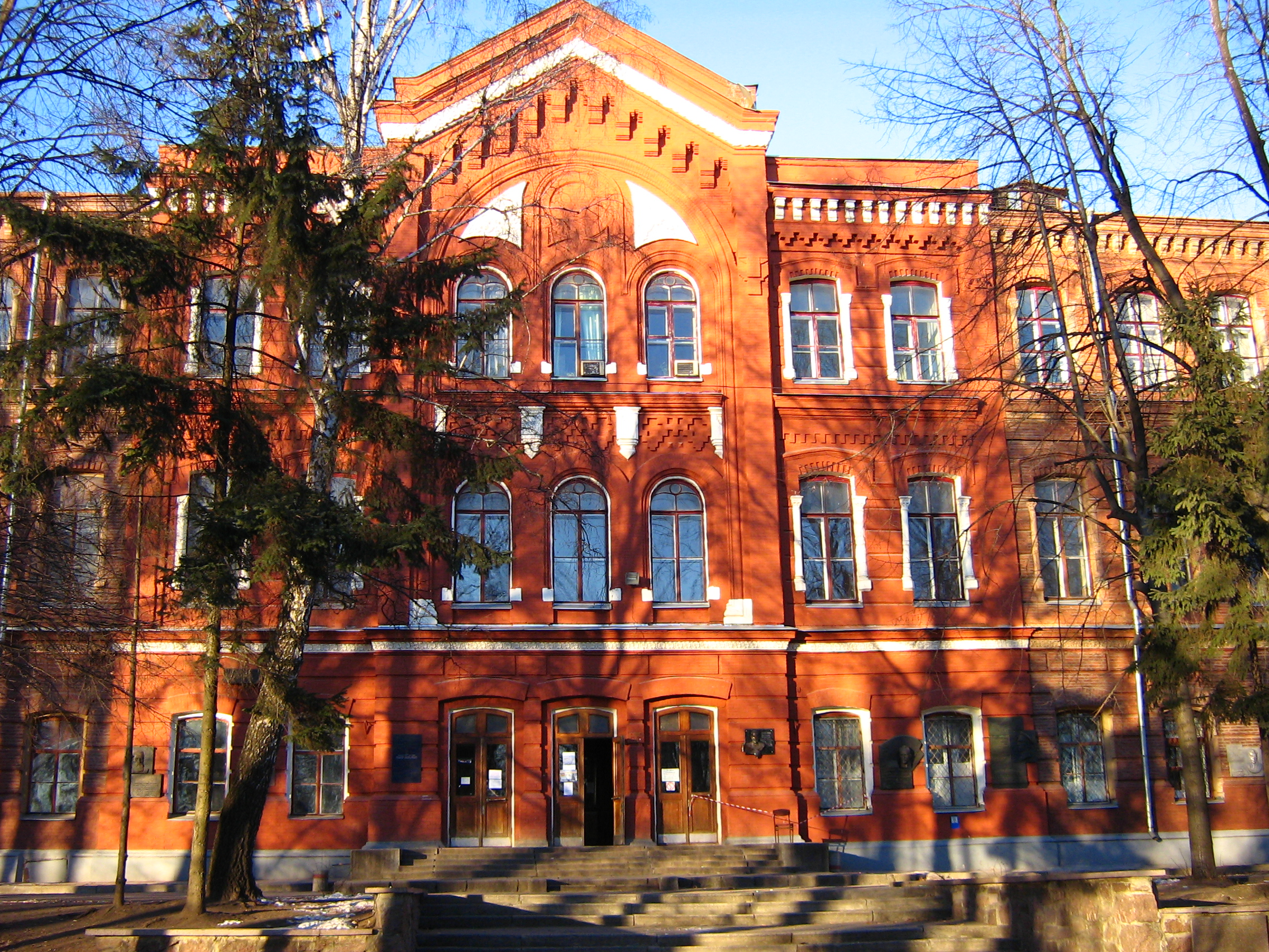 Chief auditorny corpus Kharkov Polytechnic Institute